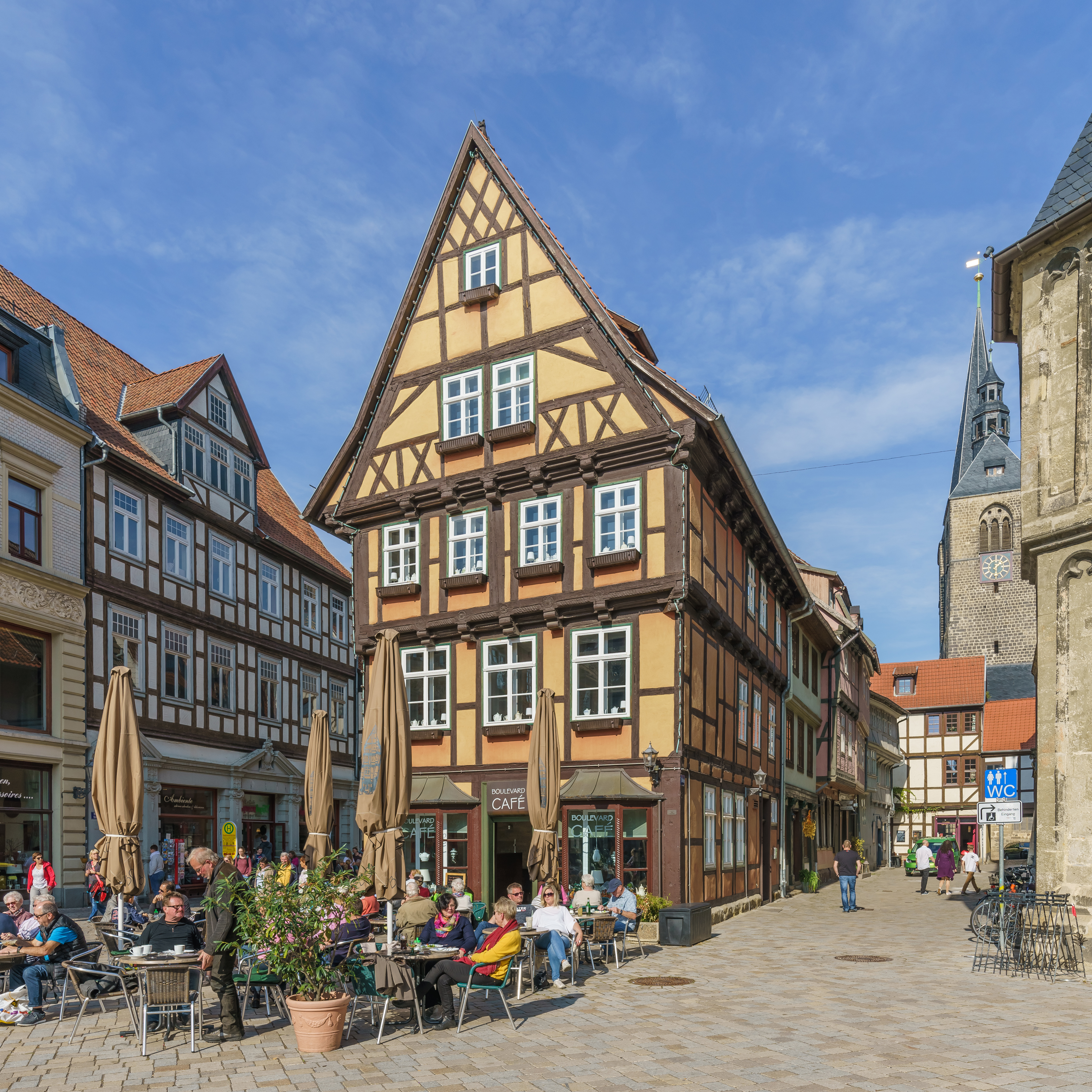 Market Square in the Old Town in Quedlinburg, Germany